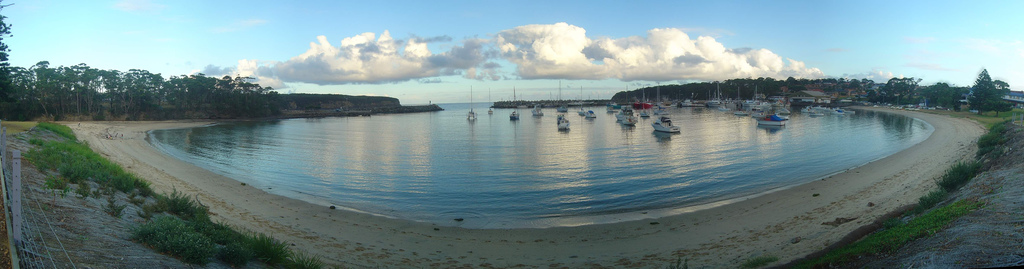 Panorama of Ulladulla Harbour